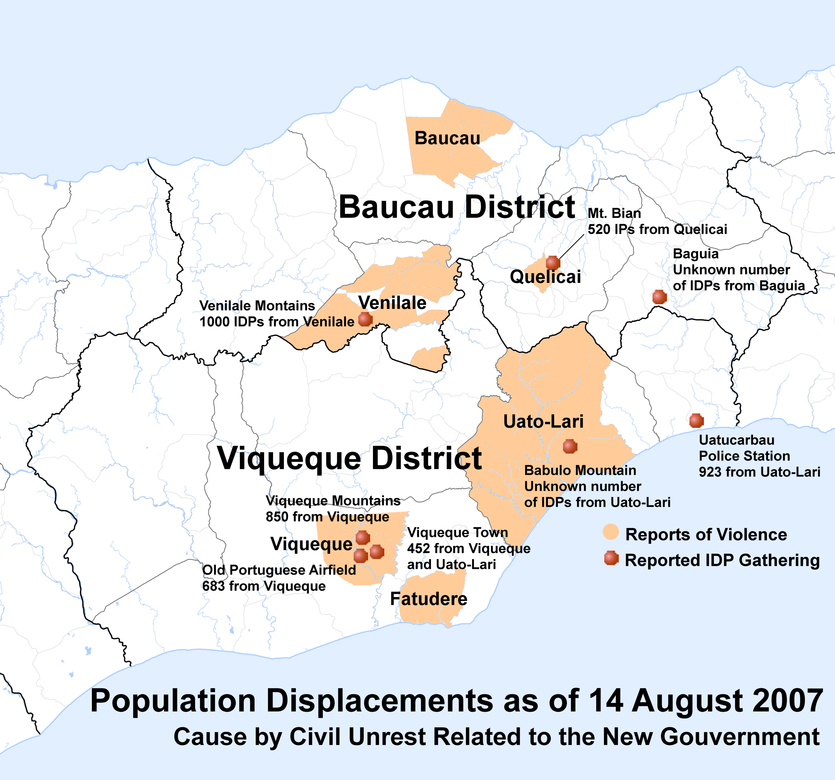 Internal Displaced People (IDP) in East Timor, 14 August 2007, caused by civil unrest related to the announcement of the new government